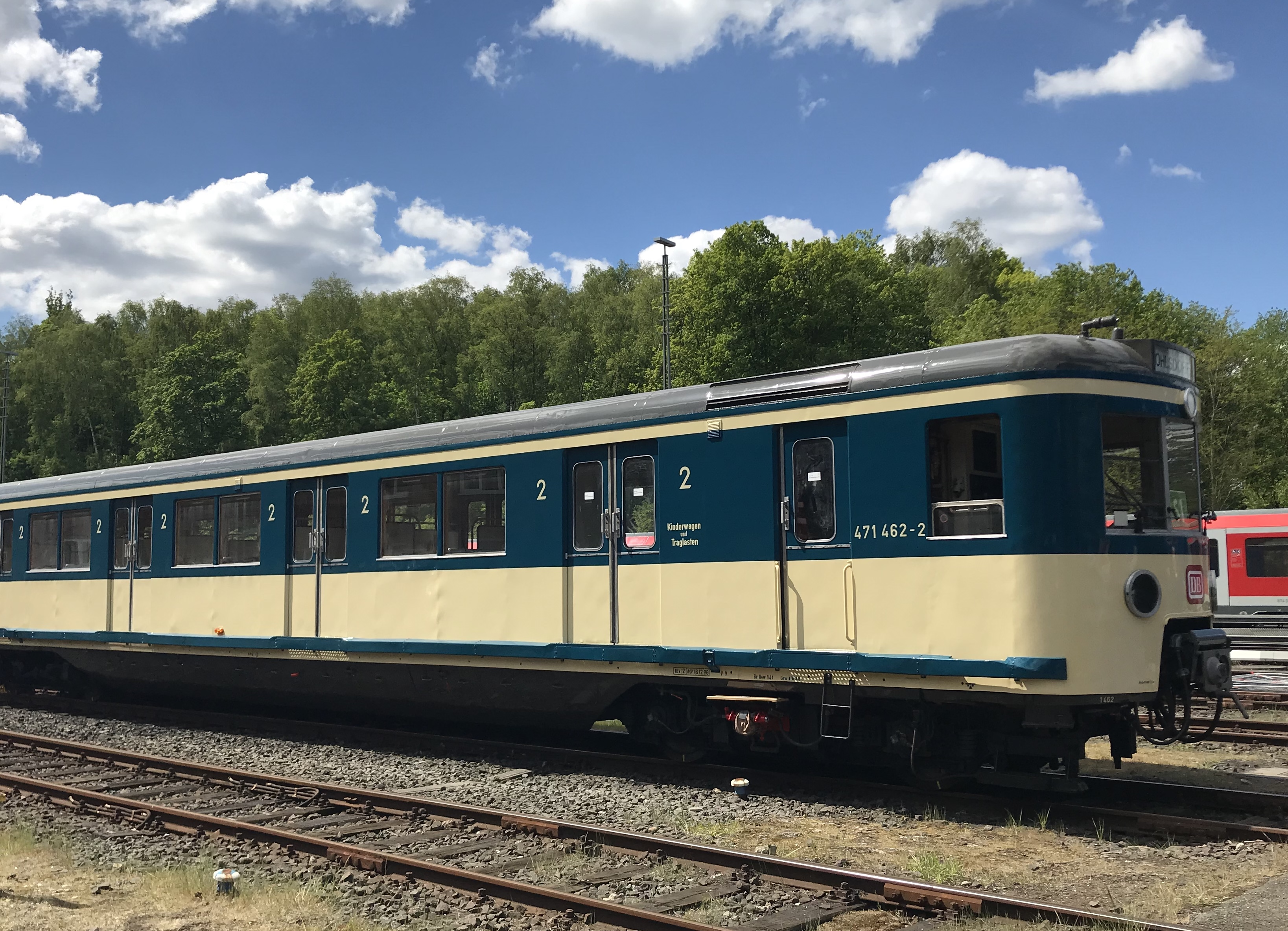 Driving Unit from EMU 471 062 after restoration at Hamburg Ohlsdorf works, destined for the German Museum of Technology. May 15th 2019.